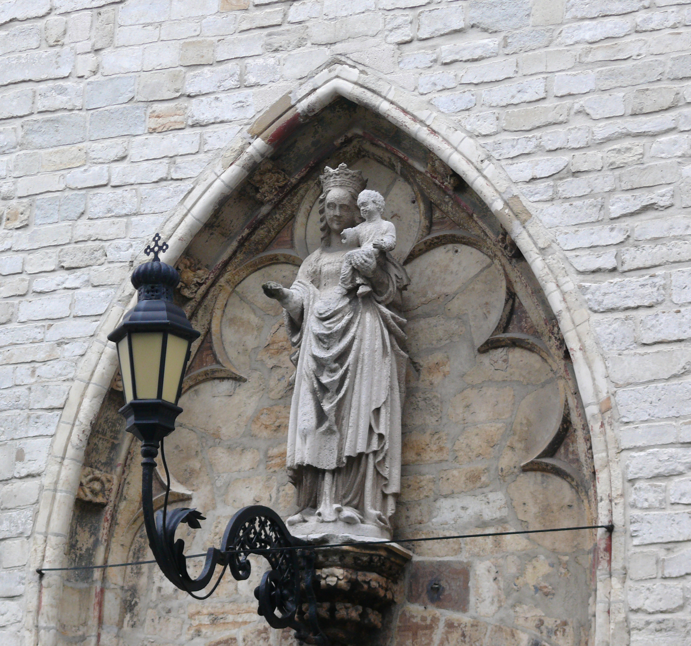 Statue of Madonna with child above the entrance of Schepenhuis (Aldermen's house) in Mechelen, Flanders, Belgium. The statue of Our-Lady is a 1933 replica of a 17th century copy, by Maarten van Calster, after the original statue, by André Beauneveu, dating back to the fourth quarter of the 14th century